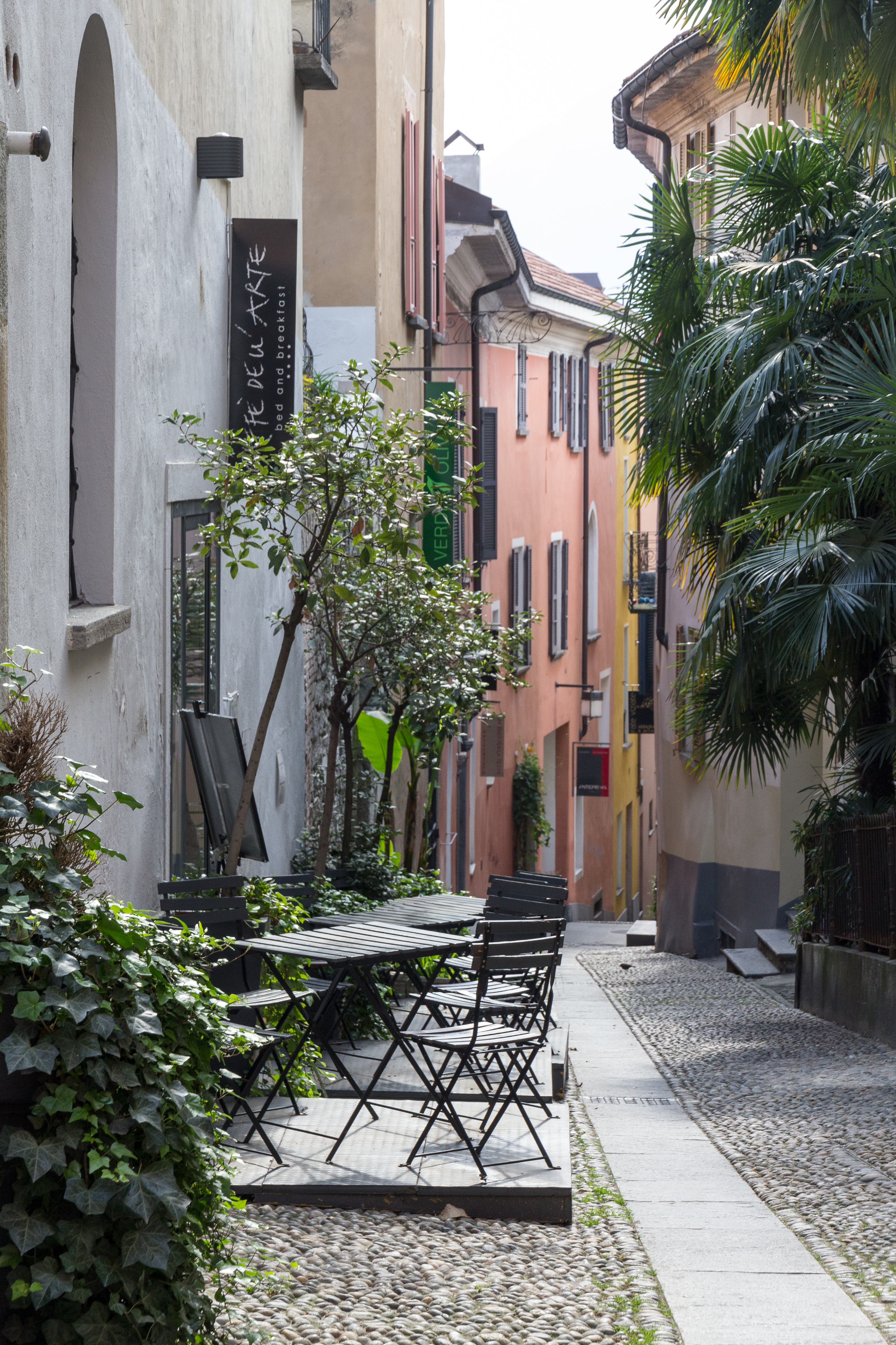 Small street "Via Panigari" in the old town of Locarno, Ticino, Schwitzerland.